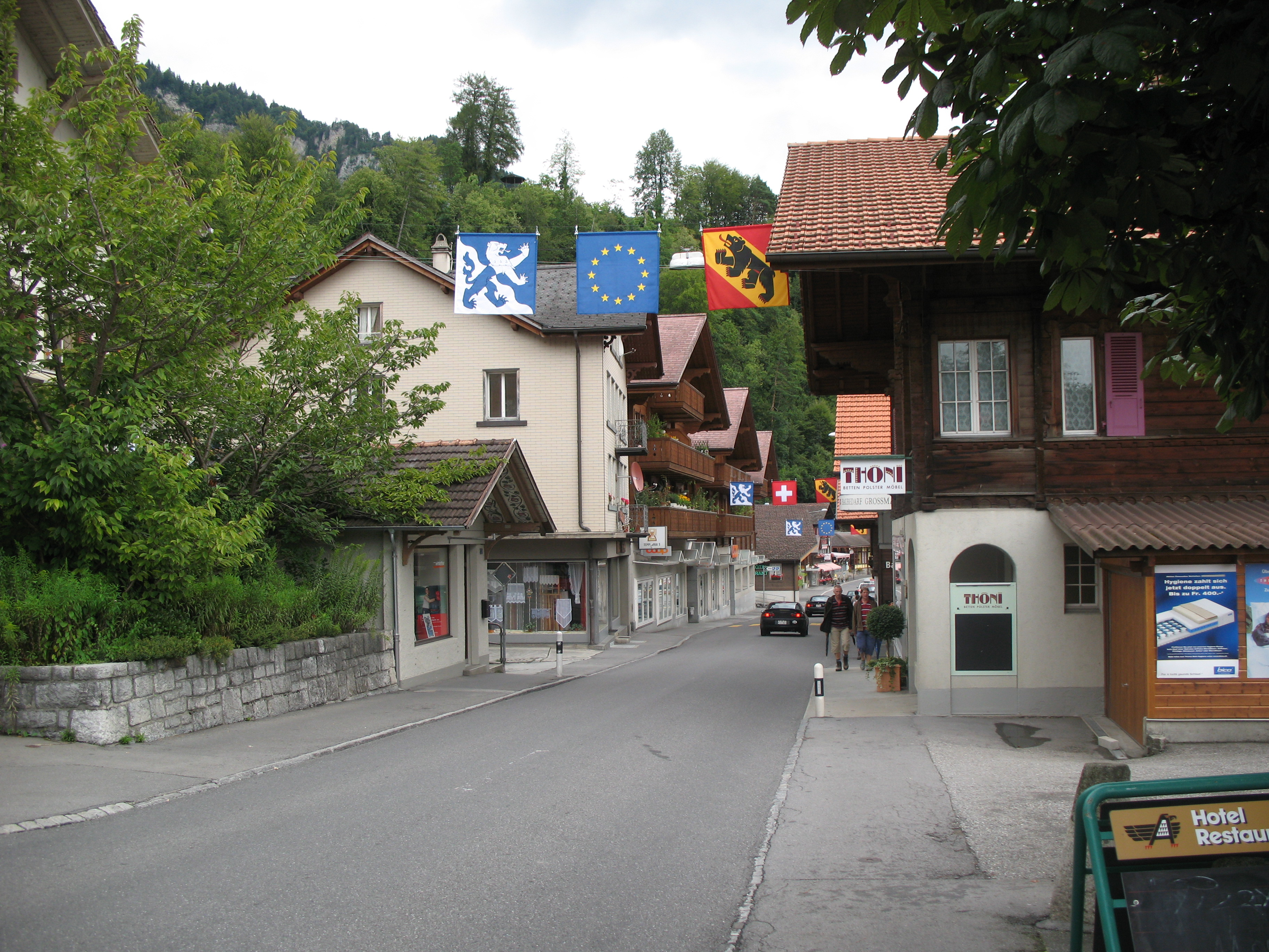 Main Street, Brienz, Switzerland